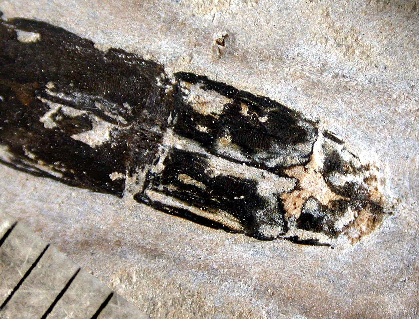 Cratostenophlebia schwickerti (Odonata: Stenophlebiidae), Lower Cretaceous, Crato Formation, Brazil, male holotype WDC 136, terminalia (cerci)